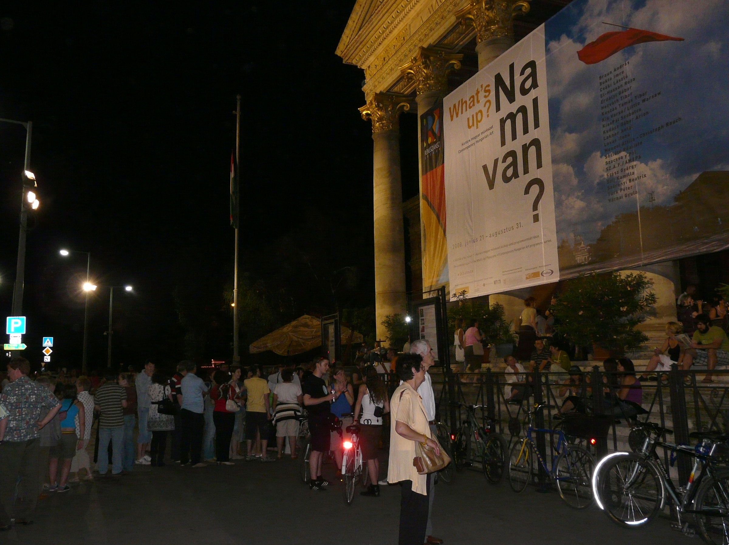 The Night of the Museums, 2008-06-21. Budapest, Hungary